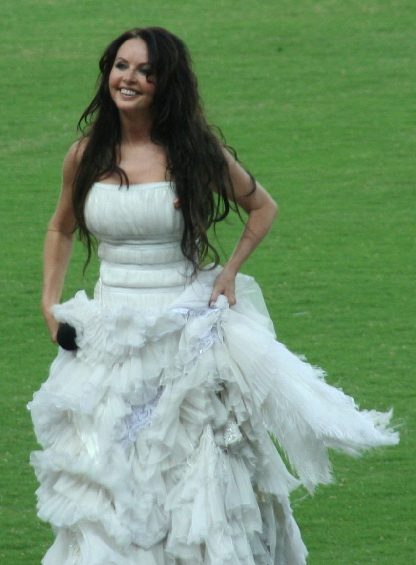 World Athletics Championships 2007 in Osaka - Singer Sarah Brightman at the Opening Ceremony